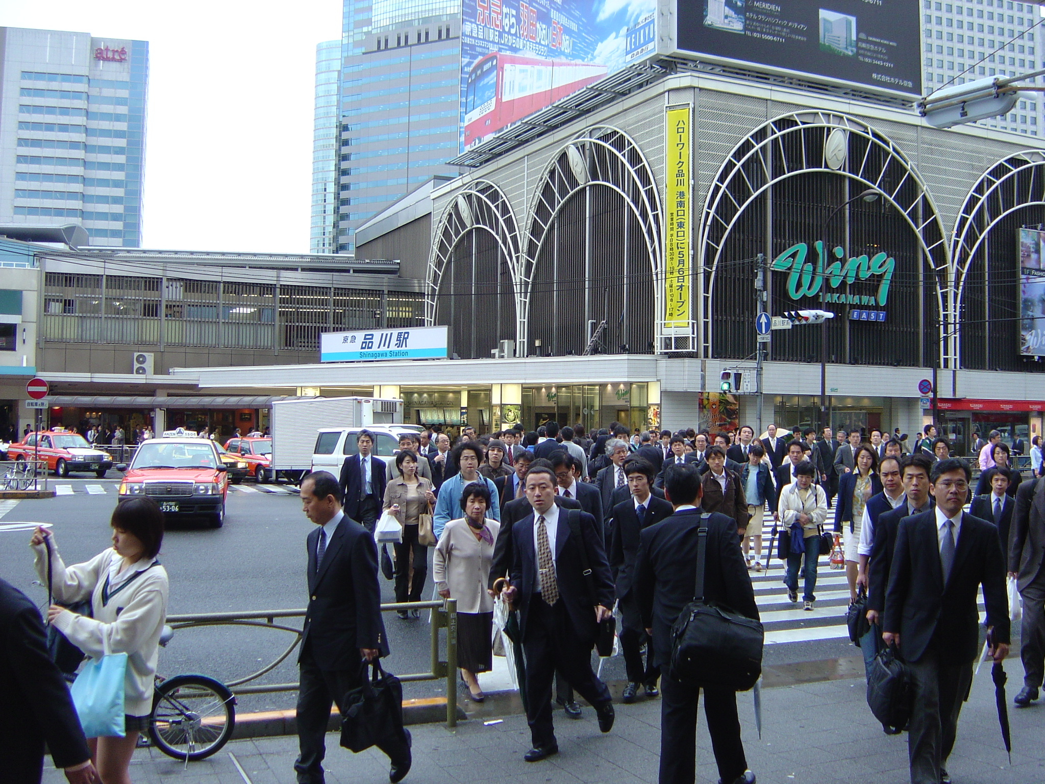 Exterior of Shinagawa Station, Shinagawa-ku, Tokyo, Japan. Image taken May 20, 2004.